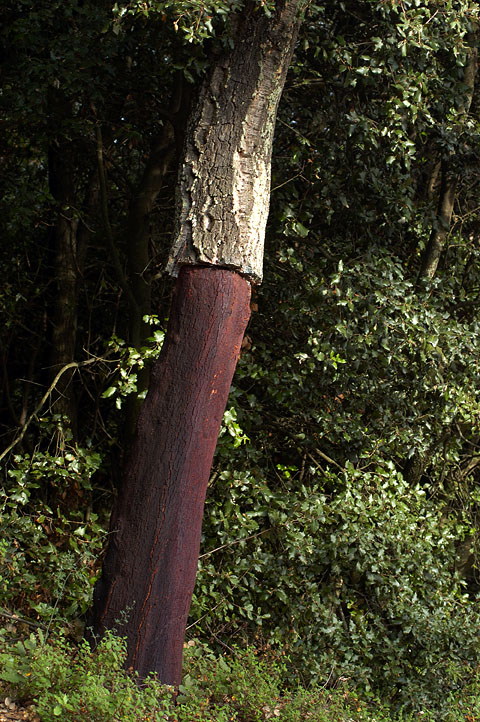 Cork Oak Quercus suber stripped of bark, Montseny, Barcelona, Spain 2006